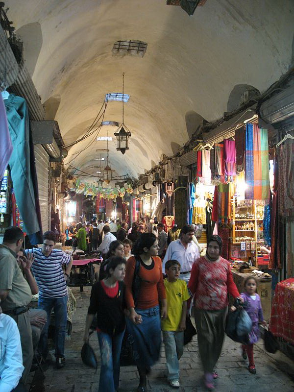 Covered suq in Aleppo